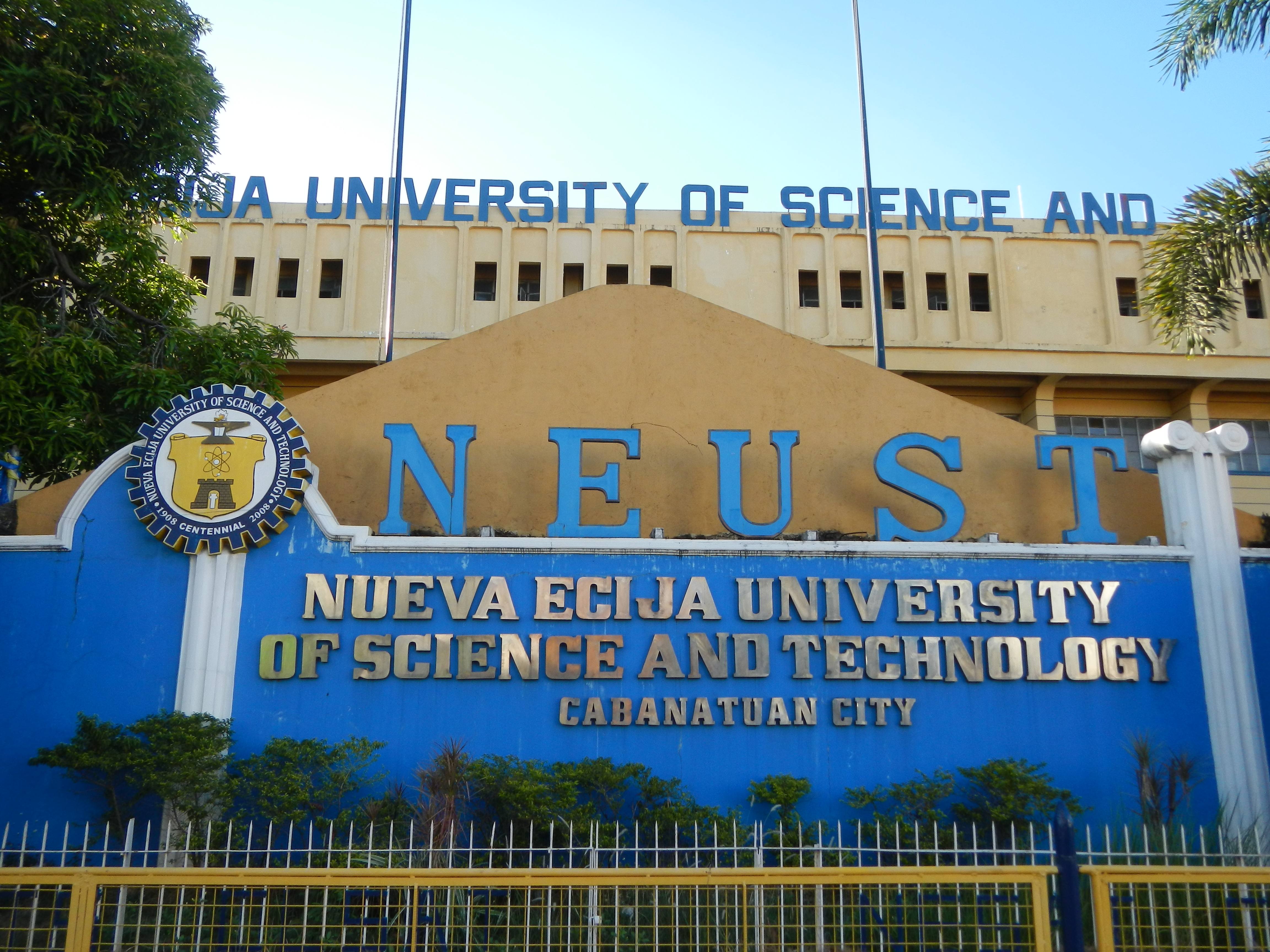 Nueva Ecija University of Science and Technology [1] commonly abbreviated as N.E.U.S.T., is a university , Founded: June 7, 1929 located in Barangay Quezon District and Mabini Homesite (Poblacion), Cabanatuan City, Nueva Ecija, Central Luzon, Philippines; the university offers graduate and undergraduate courses in many specialized fields as well as vocational training programs; [2] Campuses in Carranglan, inter alia, Nueva Ecija [3].